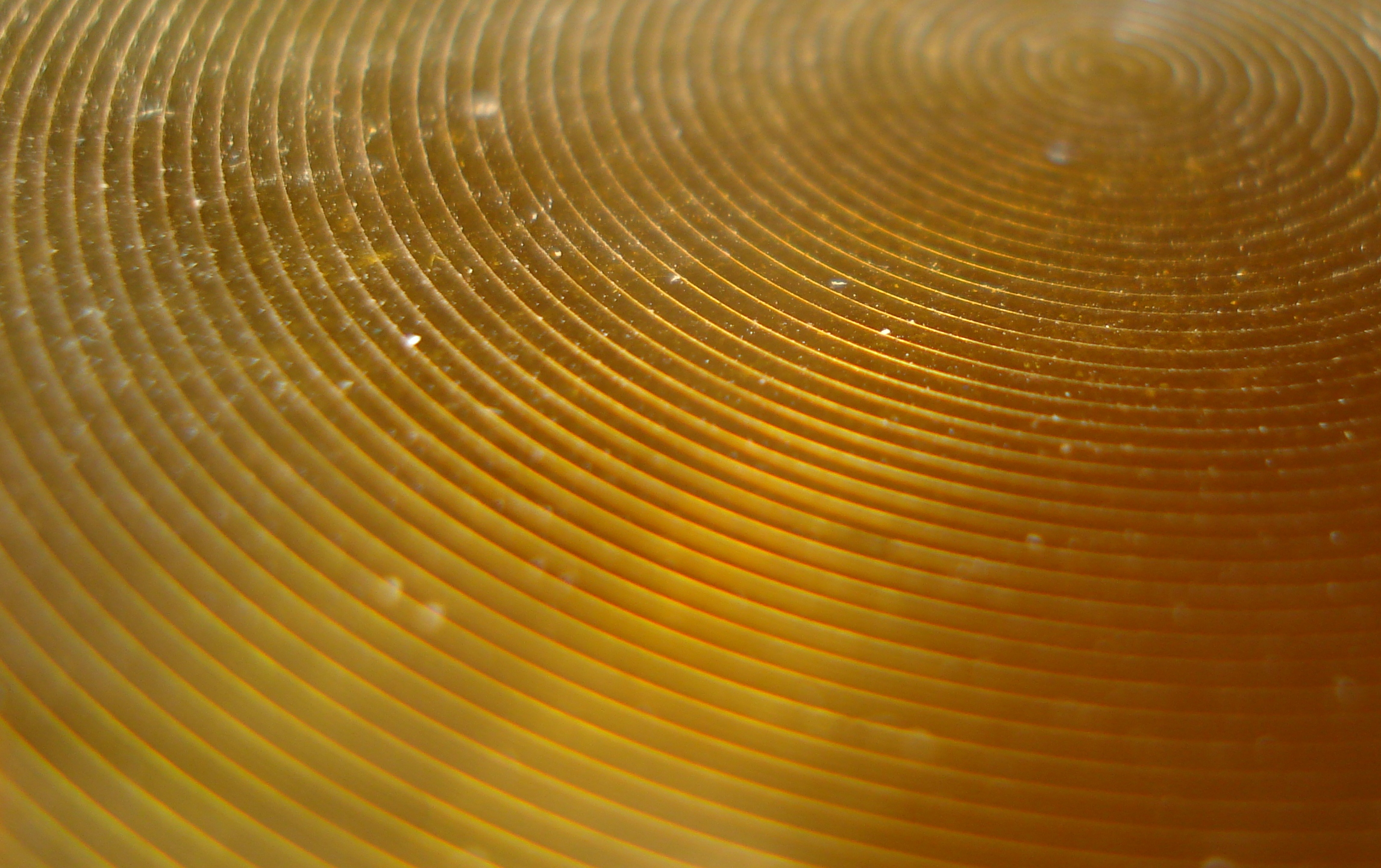 A flat, thin, transparent and flexible plastic sheet having conenteric circles on it act as Fresnel lens.